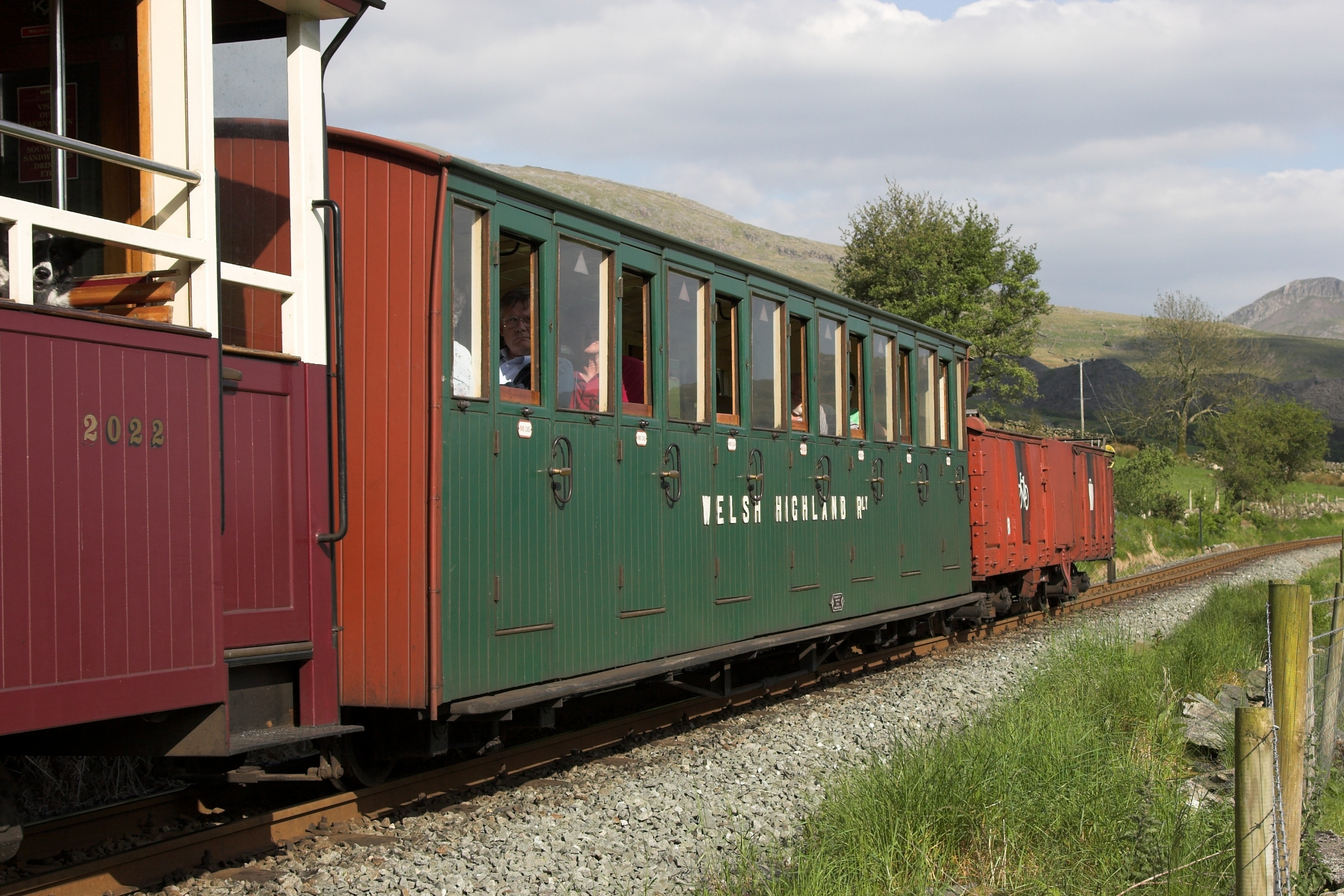 Welsh Highland Railway, heritage coach No.23 at Snowdon Ranger.